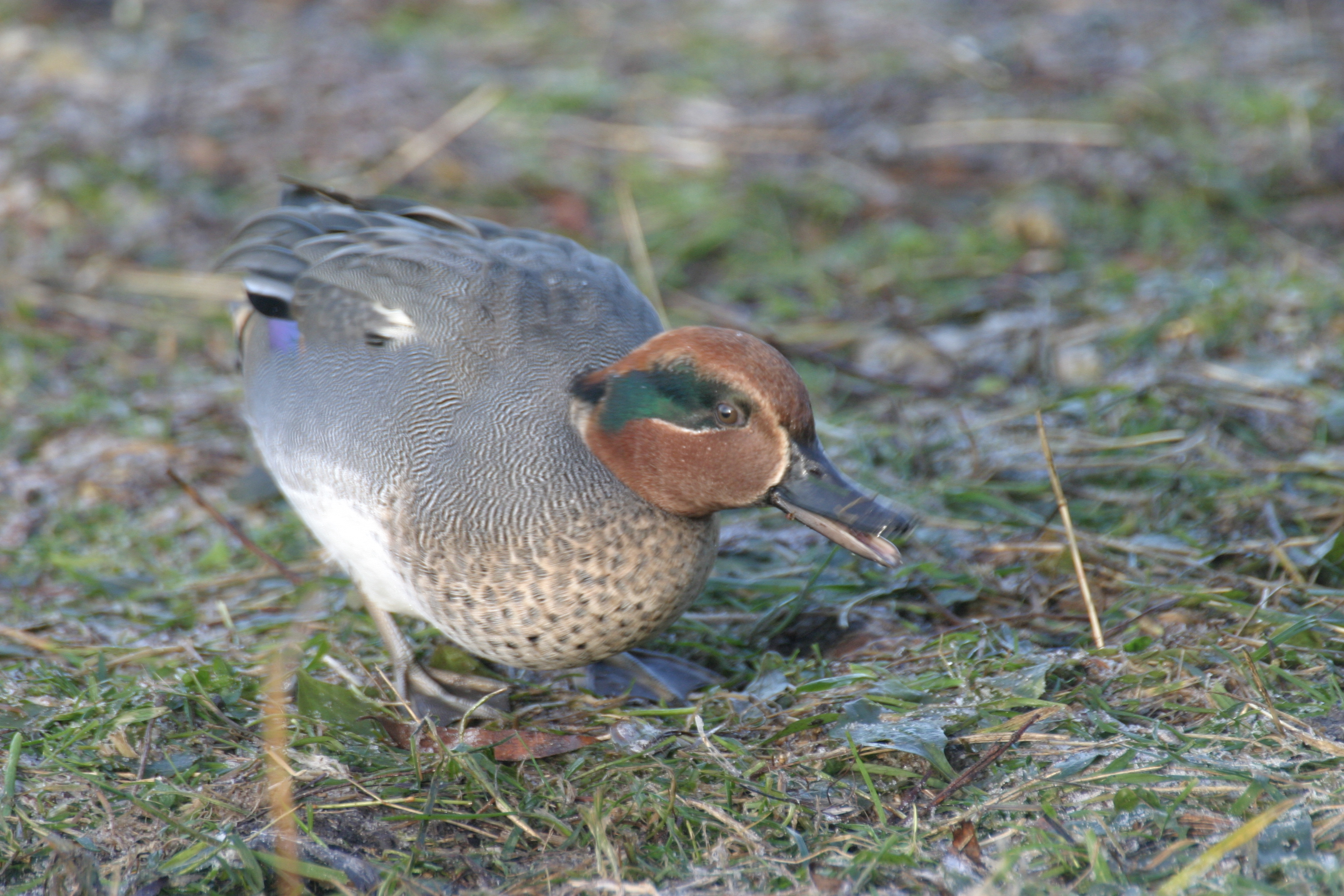 Anas crecca, Martin Mere, Lancashire, England. Photo: Rhion Pritchard.